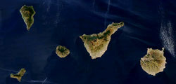 Vivid exemple of non connected set.